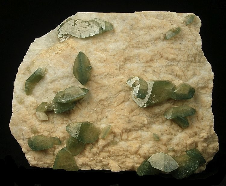 Apatite-(CaOH), Orthoclase Locality: Sapo mine, Conselheiro Pena, Doce valley, Minas Gerais, Southeast Region, Brazil (Locality at ) Size: 11.4 x 9.0 x 2.4 cm. These remarkable and unusual apatite-(CaOH) specimens were really the only major new find at the 2005 Munich Show, of quantity and visual appeal. Italian dealer Riccardo Prato had gone to Brazil himself when the pocket came to light and got the most and best. This fine cabinet piece consists of fat, dipyramidal crystals to 3.0 cm generously scattered on contrasting orthoclase matrix. No more of this style have been found since.